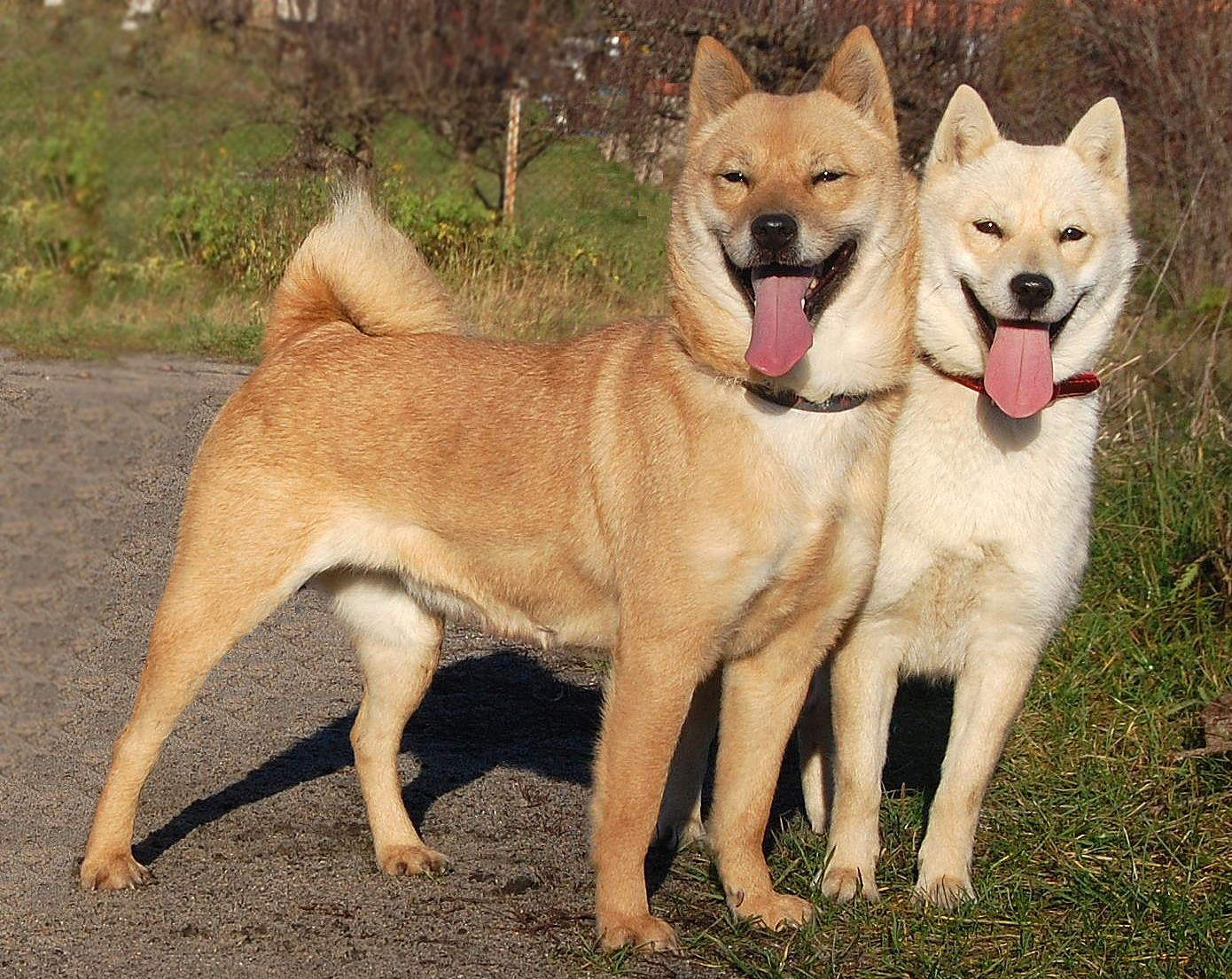 Hokkaido from the kennel HAKUGETSU, the owner - Katarzyna Jabłońska.